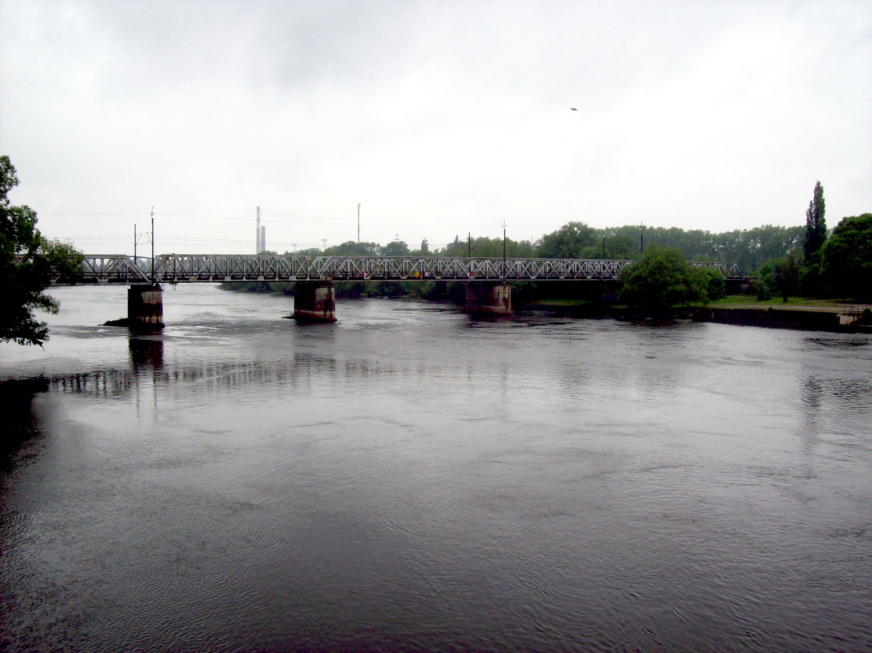 River 'Warta' in Kostrzyn/Oder. In the distance see the river over the railway bridge.